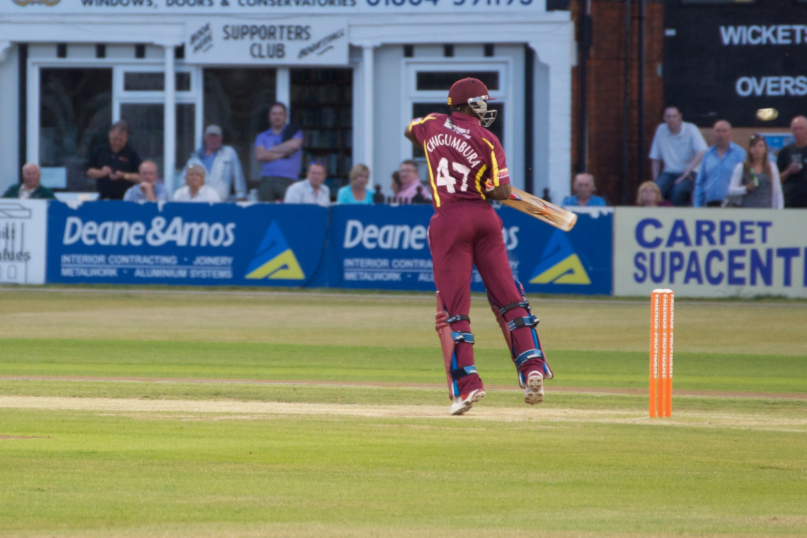 In action for Northants Steelbacks vs Yorkshire Carnegie, 2010.